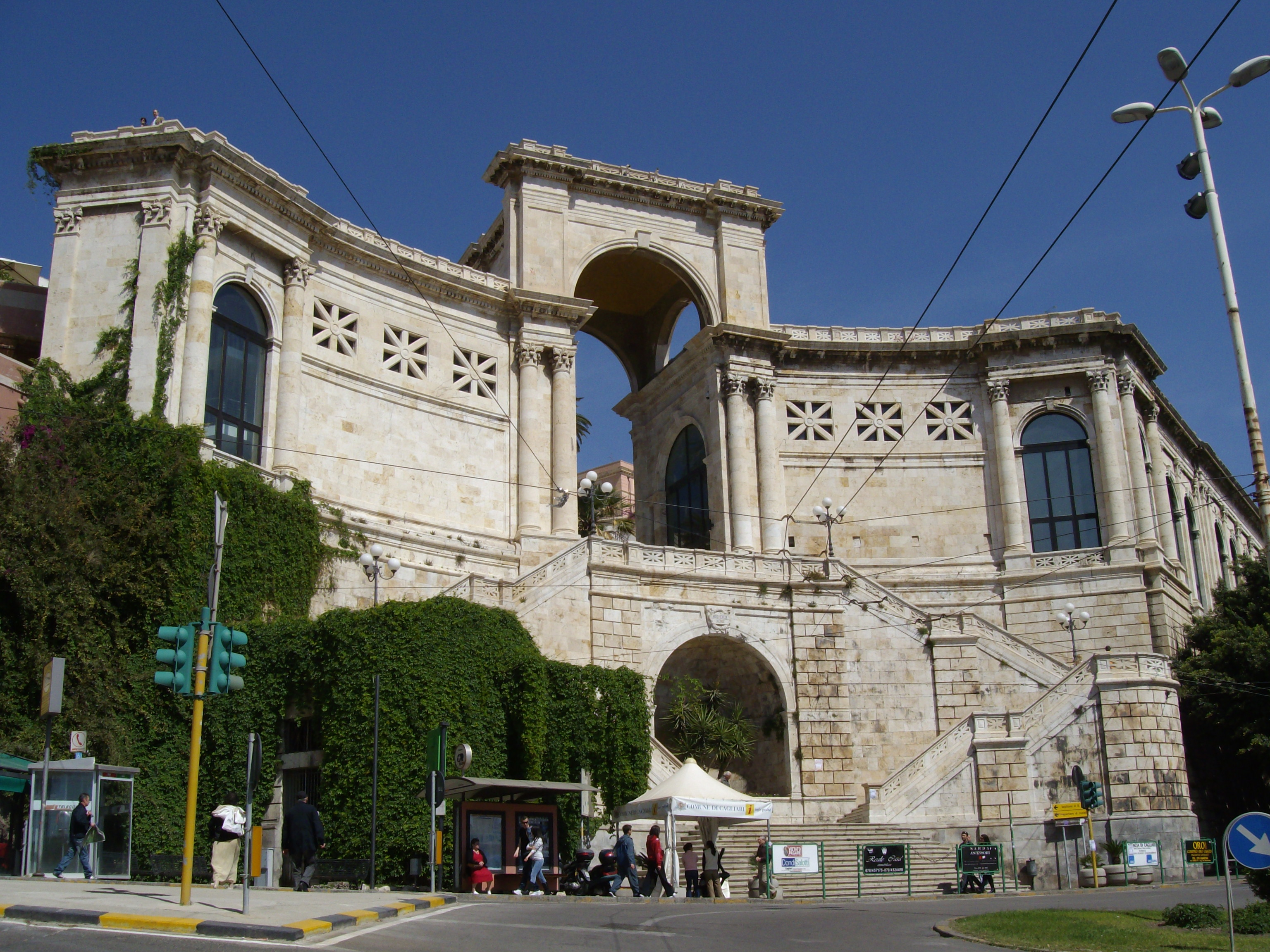 Bastione Saint Remy - Cagliari